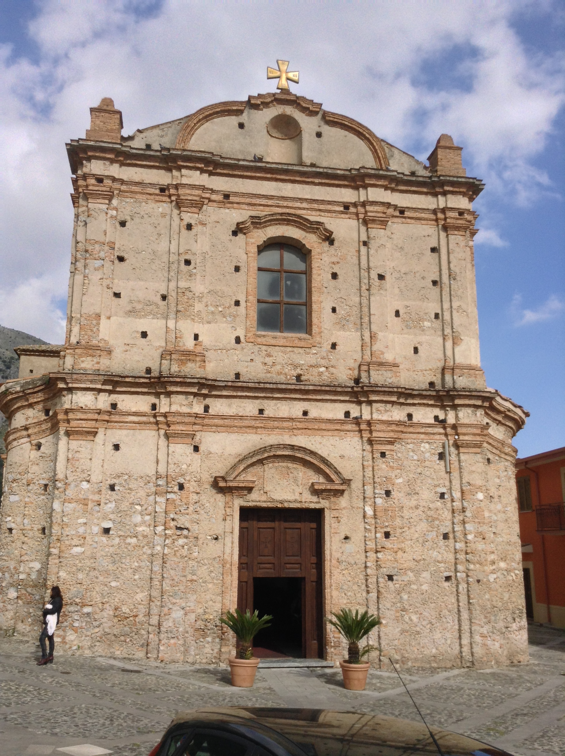 Chiesa Santa Maria Assunta in Frascineto, Cosenza, Calabria